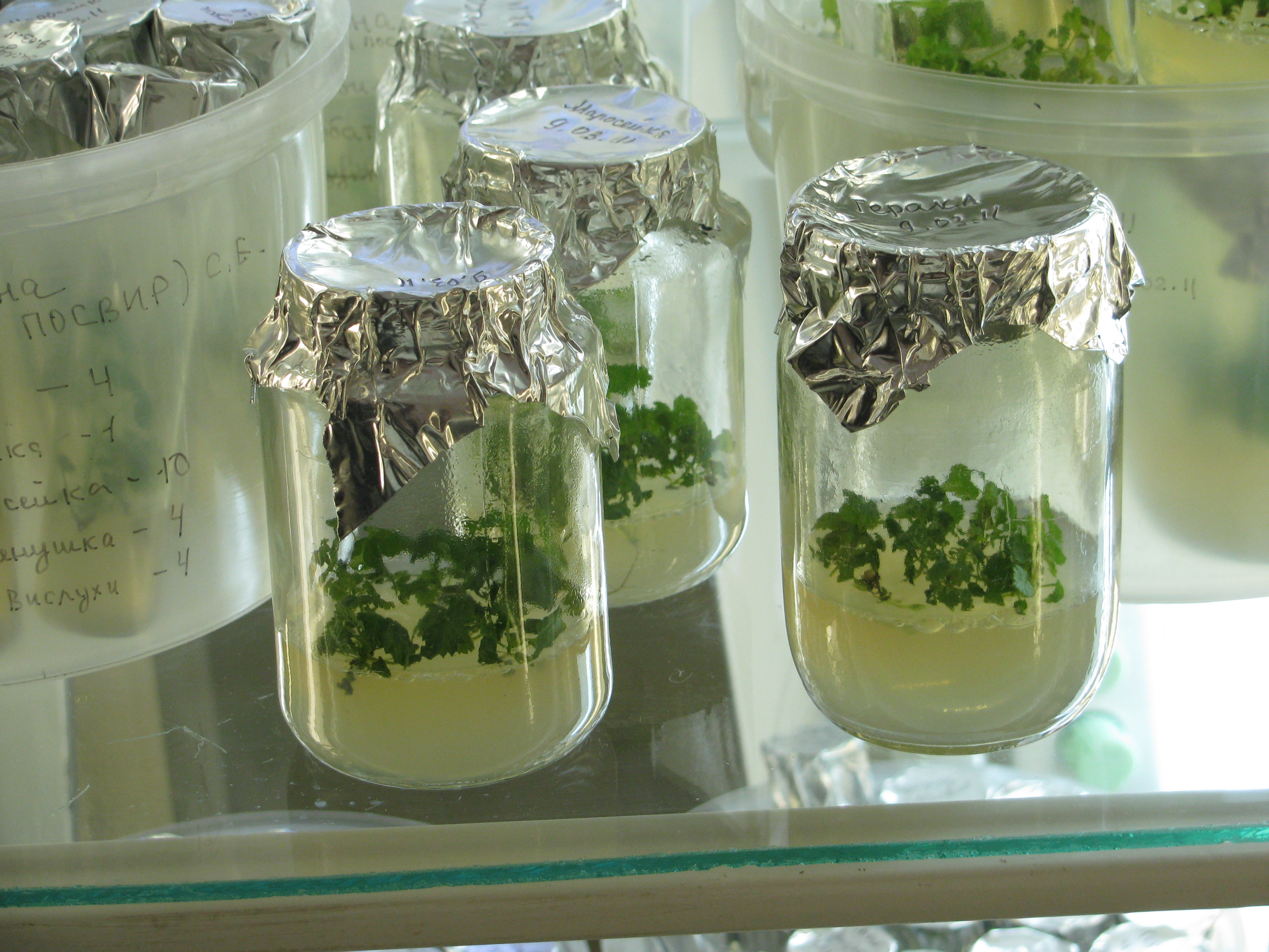 In vitro berries - Vavilov Institute of Plant Industry (VIR) Department of Biotechnology